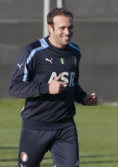 Joris Mathijsen training with Feyenoord on 22 November 2012.